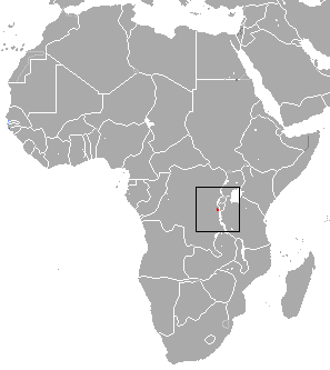 Grauer's Large-headed Shrew (Paracrocidura graueri) range